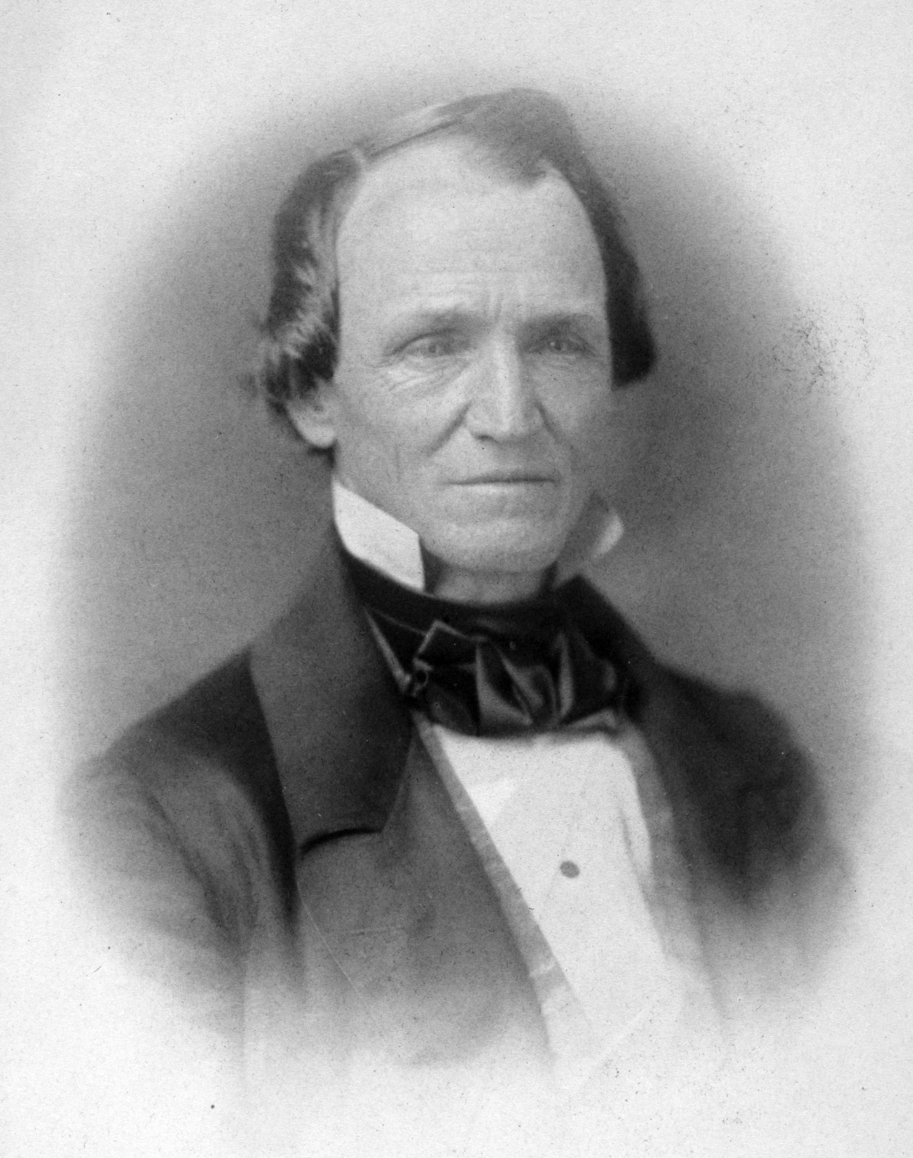 James Lindsay Seward, US Representative from Georgia